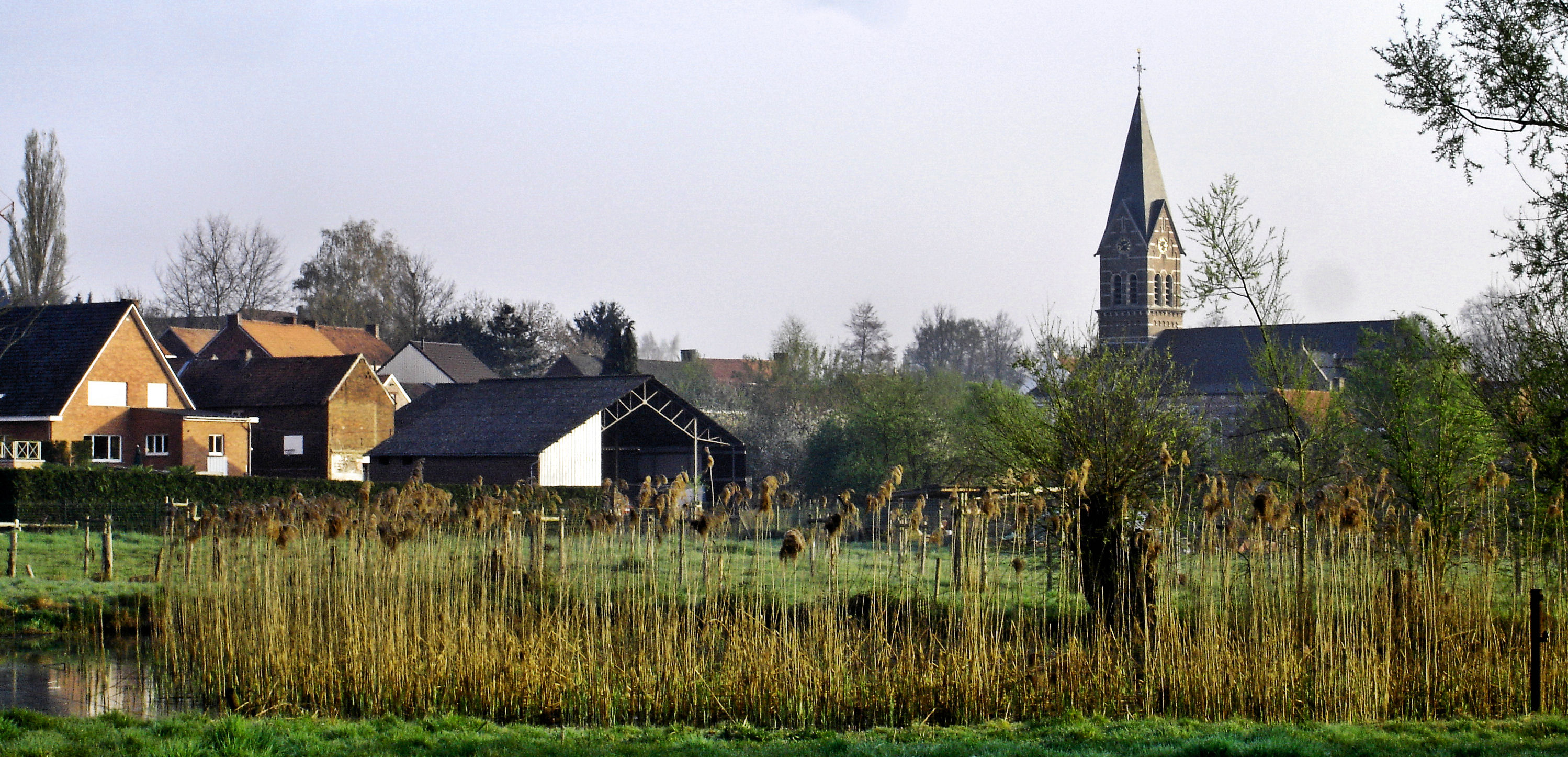 April 2007, along the footpath from Korbeek-Dijle to Heverlee - Leuven